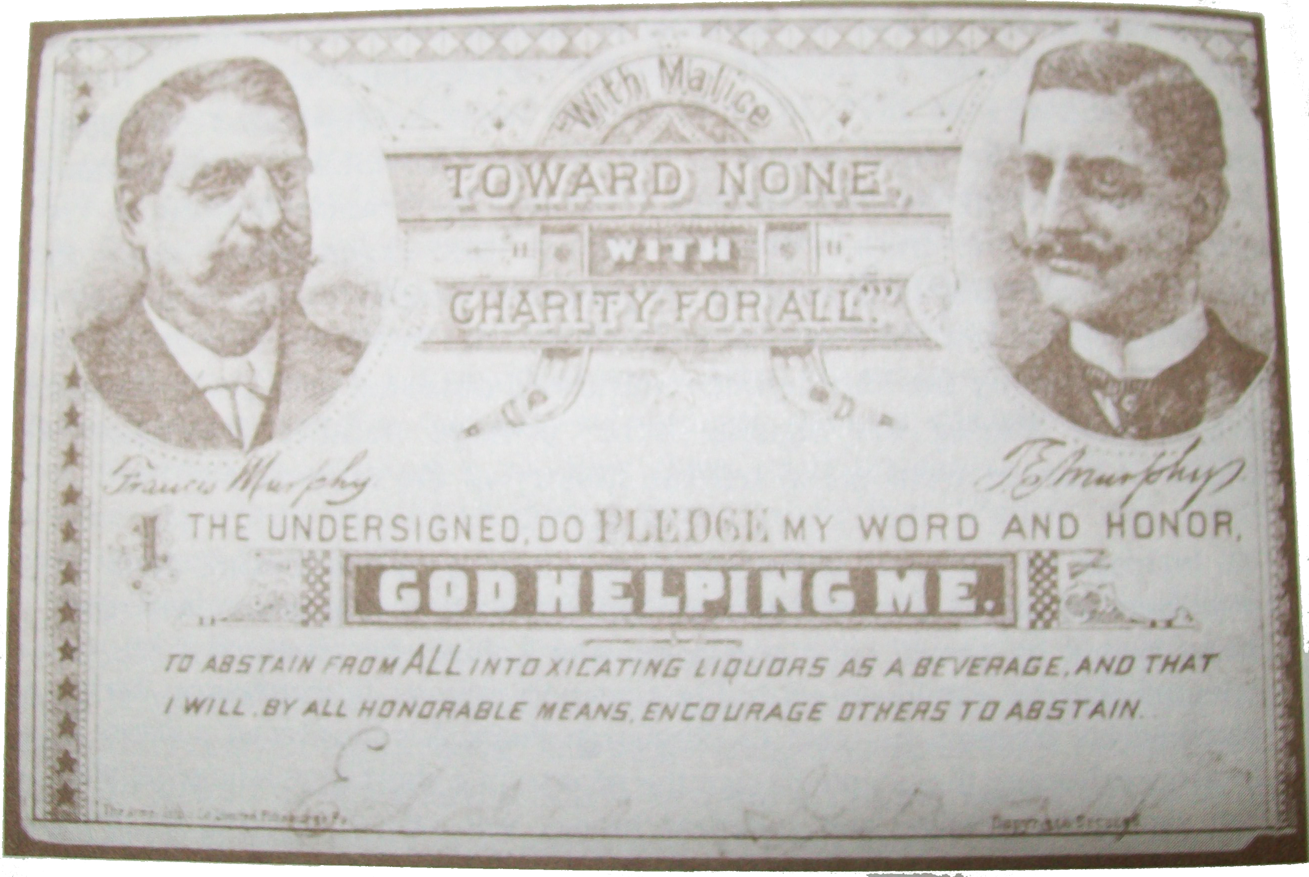 A Francis Murphy Temperance pledge card, circa 1877